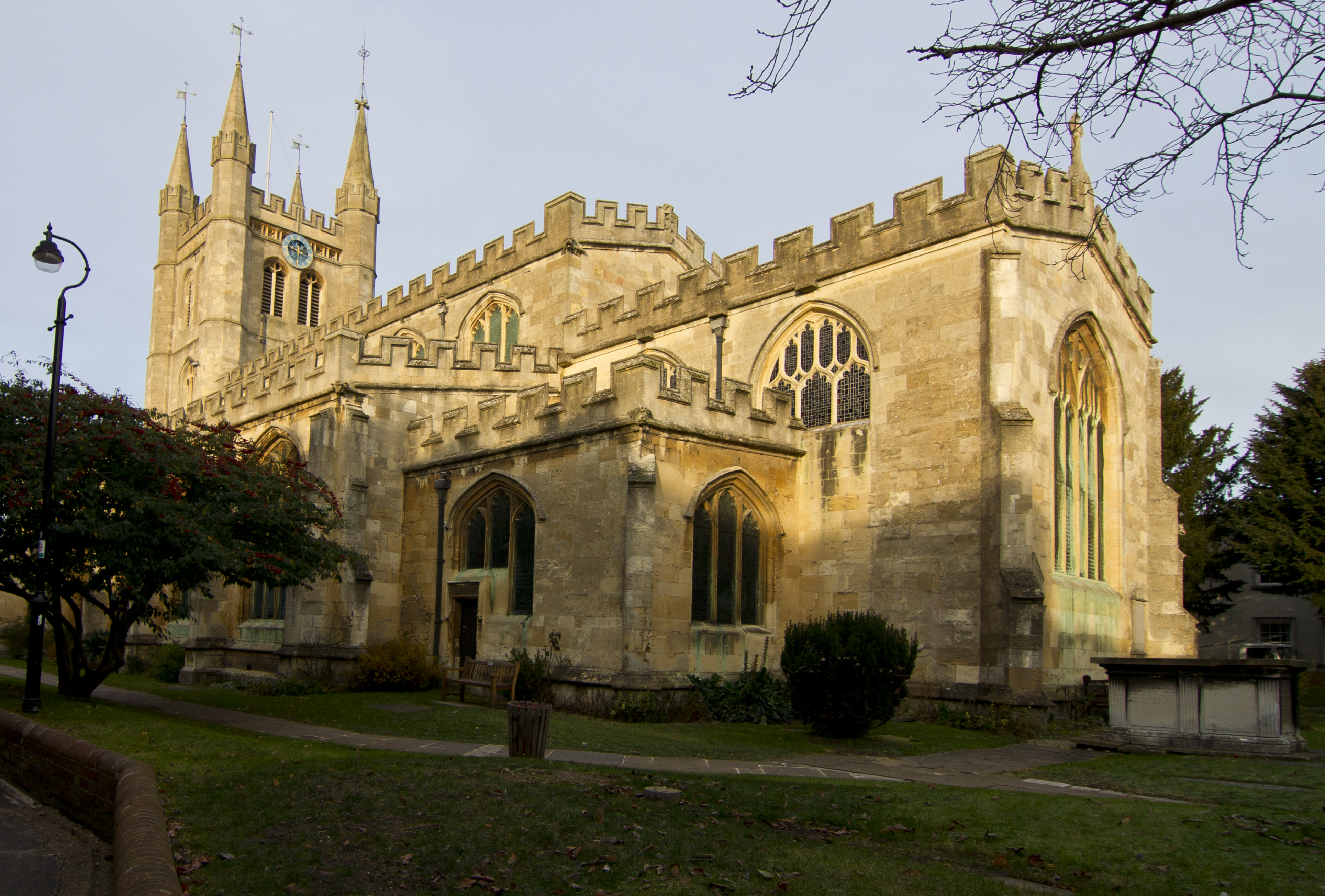 St Nicholas' parish church, Newbury, West Berkshire